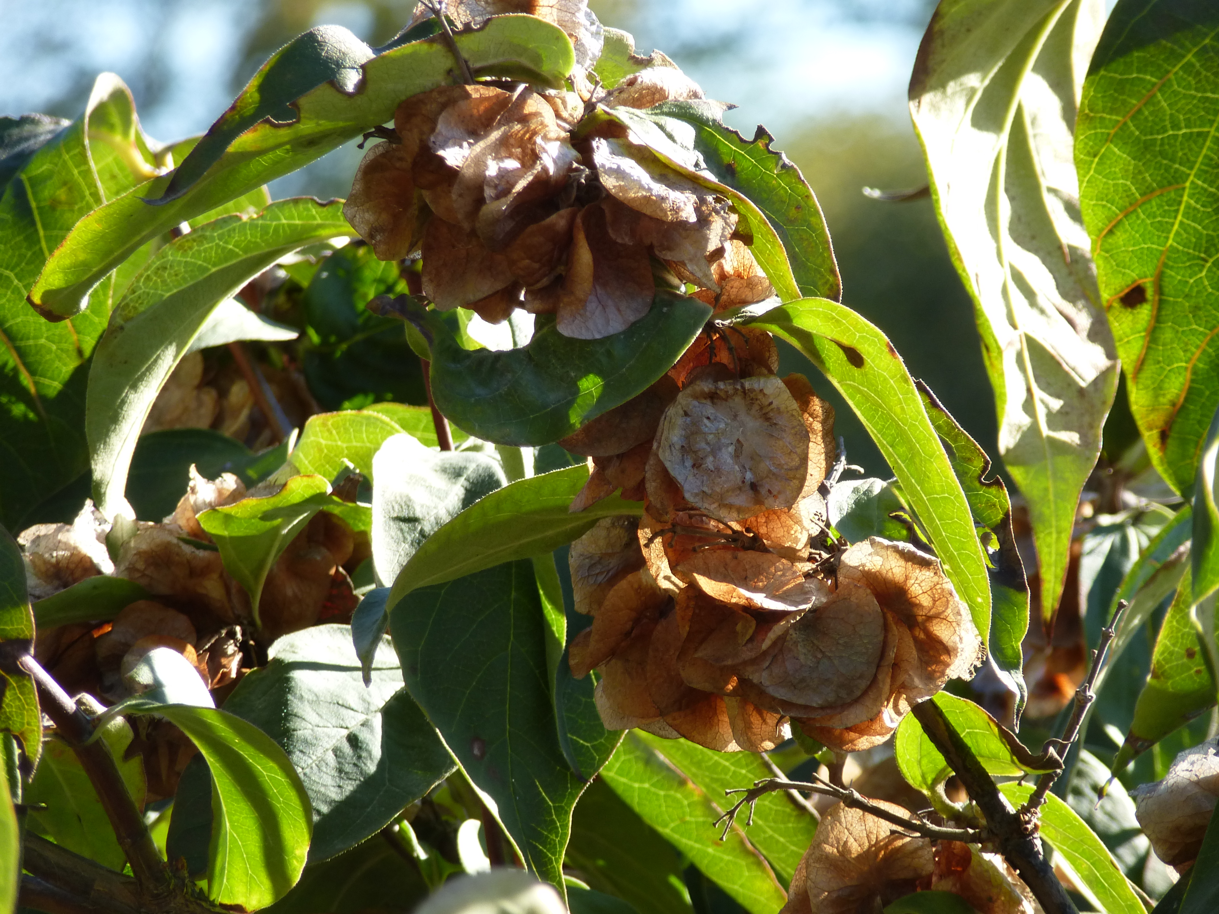 Dipelta floribunda in Jardin des plantes. Muséum national d'Histoire naturelle. 75005 Paris, France.